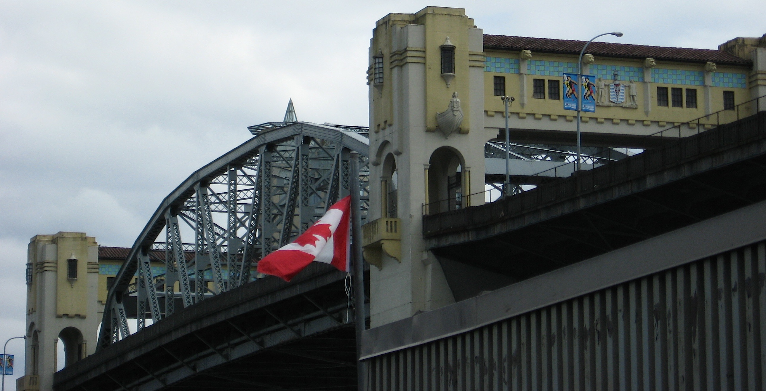 Oblique view of central span from northwest (Kitsalano) quadrant of Vancouver's Burrard Bridge, showing position of proposed 'outrigger' pathway, illustrating central text information.